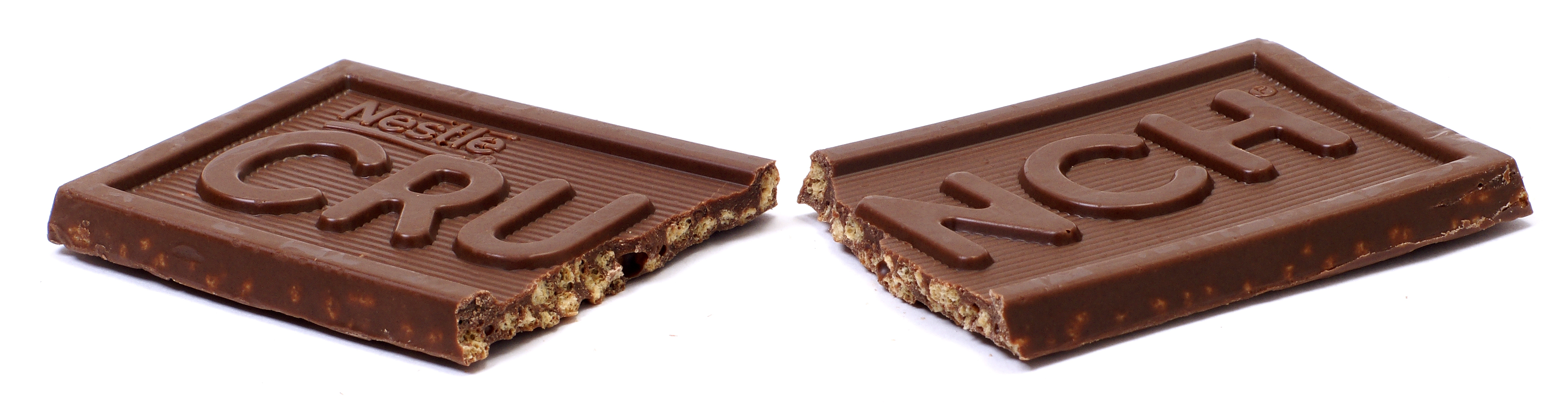 A Nestle Crunch bar, broken in half to shown puffed rice pieces inside chocolate.